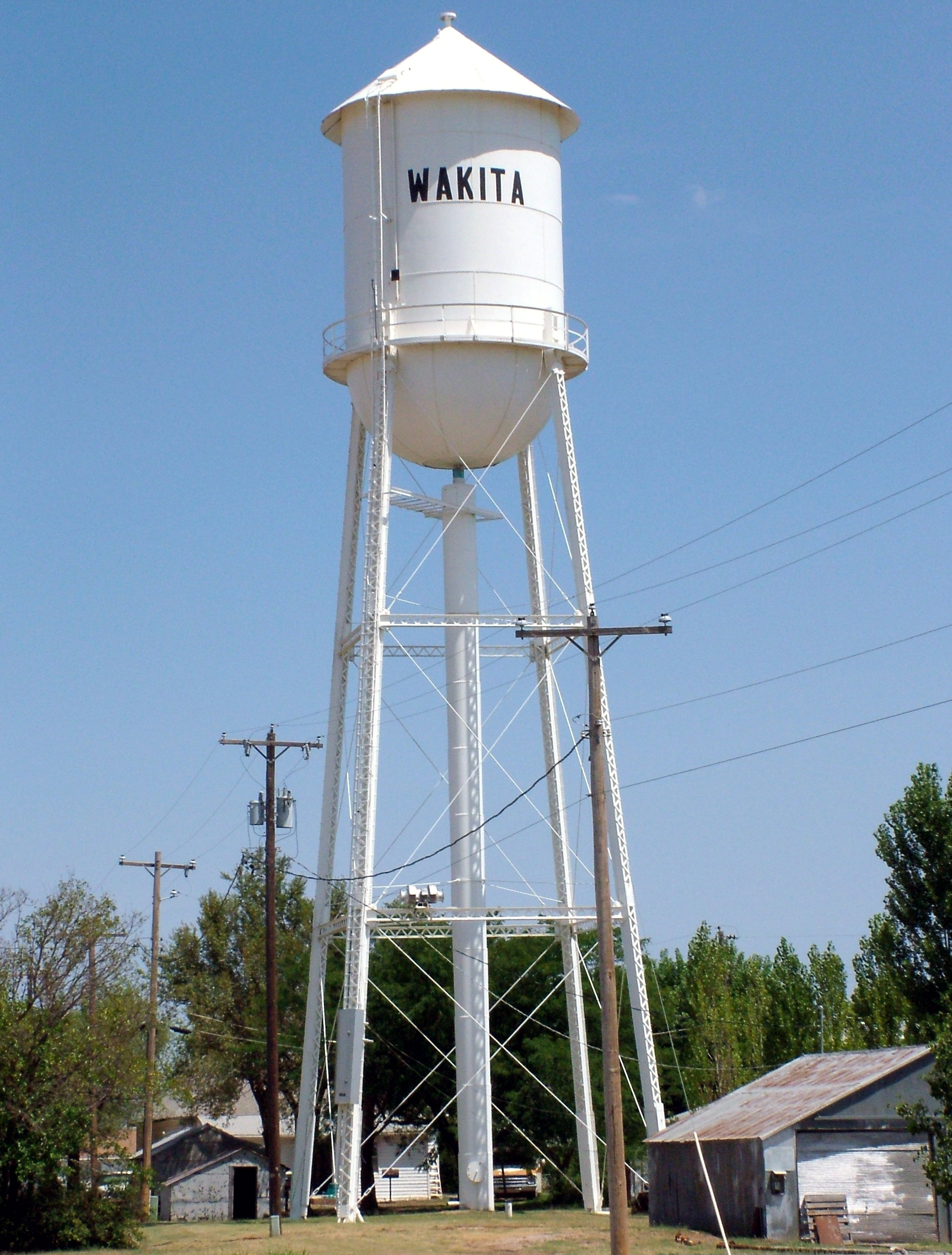 Photograph of the water tower in Wakita, Oklahoma. The same tower that was featured in the movie, Twister.